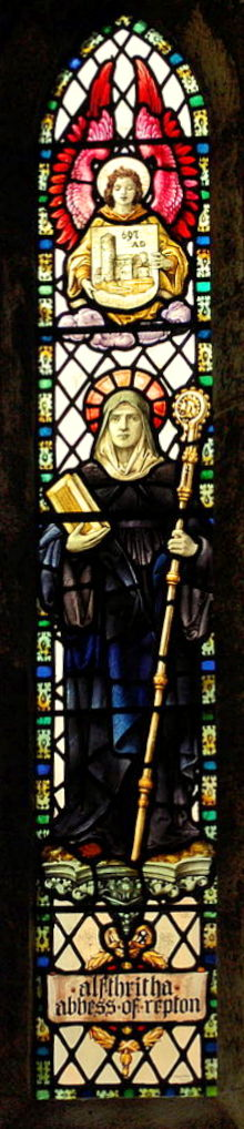 St Alfthritha at St Wystan's in Repton, Derbyshire. The original church here was established way back in early Anglo-Saxon times. This window commemorates St Alfthritha, the local abbess in the late 6th century.